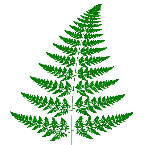 Barnsley's fern illustrates the use of affine translations in an iterated function system (IFS) to create a fractal. This version has been created with the Barnsley transformation formula, but with a different coefficient matrix, resulting in longer leaflets, or pinnas. The parameters for this image are: 0 0 0 .25 0 -.14 .02 .85 .02 -.02 .83 0 1 .84 .09 -.28 .3 .11 0 .6 .07 -.09 .28 .3 .09 0 .7 .07